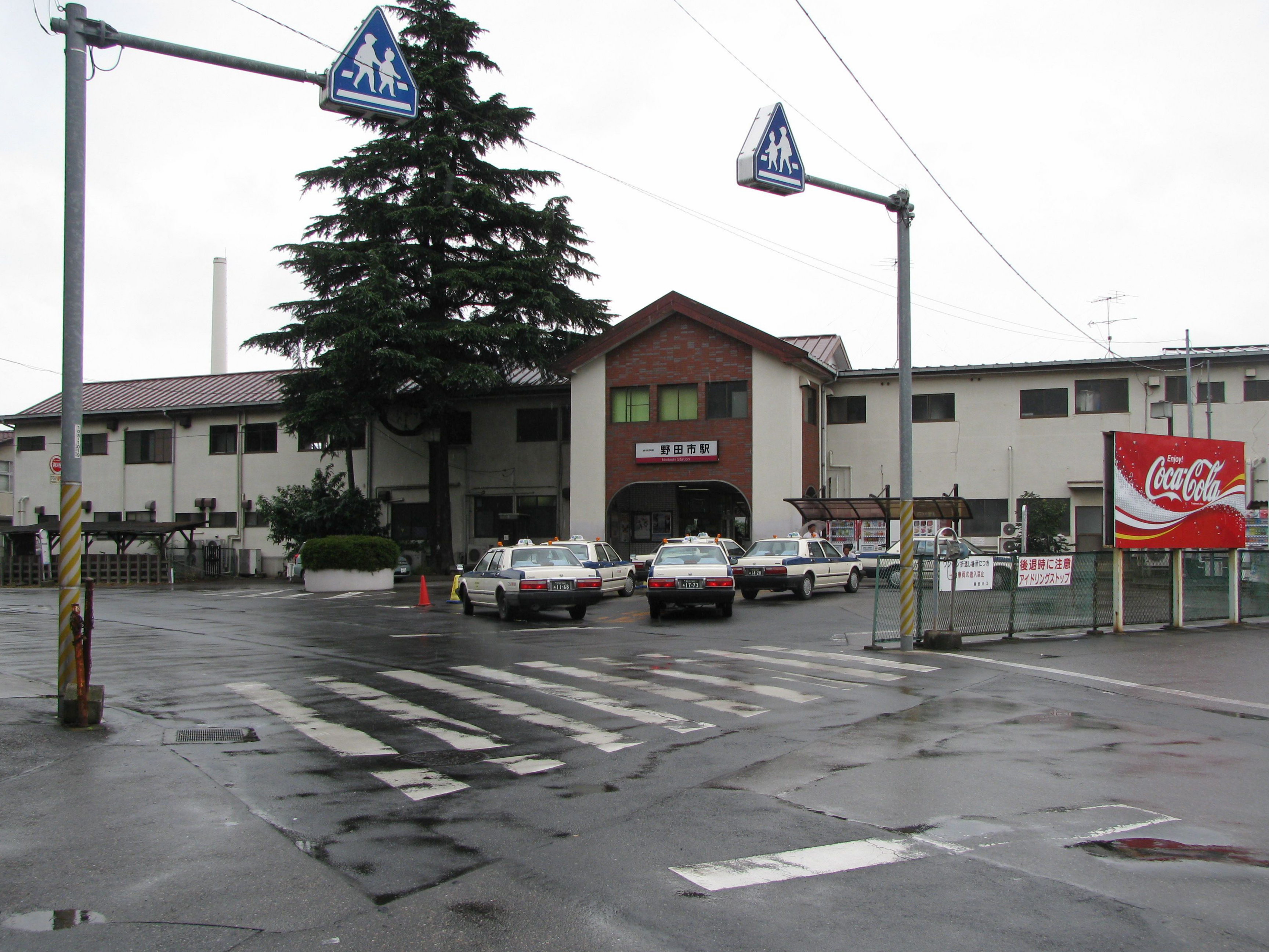 Nodashi Station on the Tobu Noda Line in Chiba Prefecture, Japan